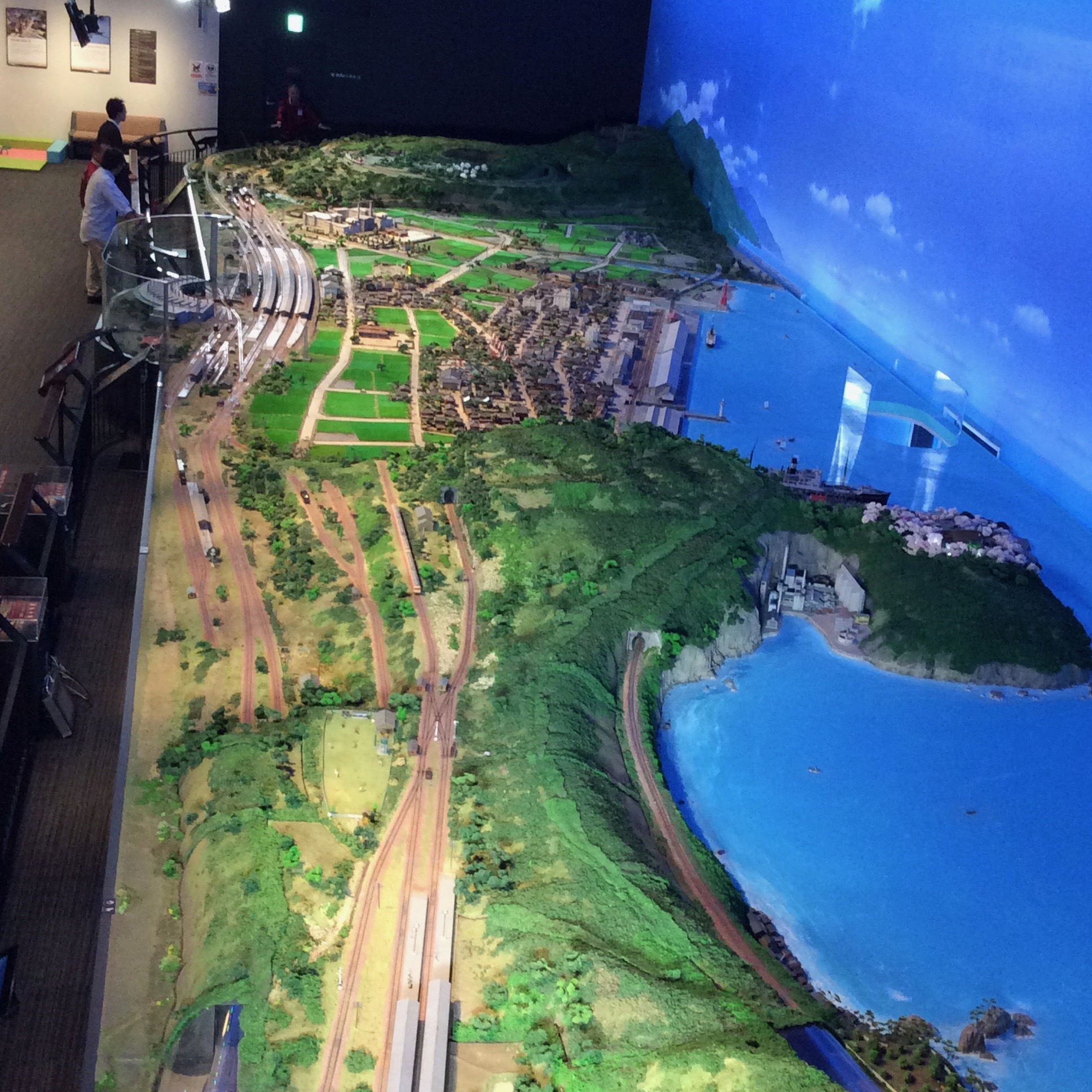 An entire view of diorama Tsuruga Station in Tsuruga Red Brick Warehouse